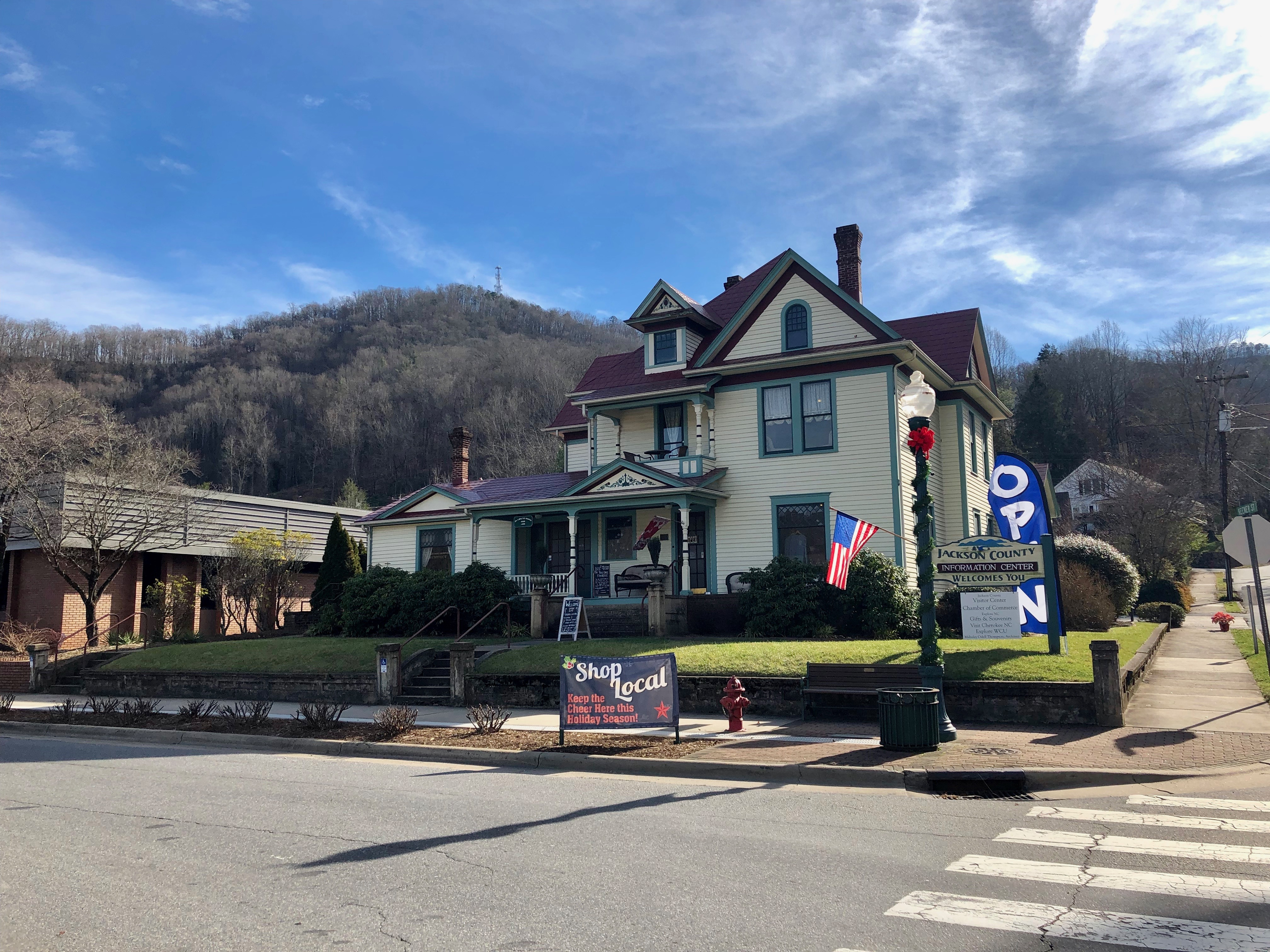 This is the Dr. D. D. Hooper House, which is currently home to the offices of the Jackson County Chamber of Commerce and architect Odell Thompson. Constructed in 1906, the Queen Anne victorian-style house was built for Dr. D. D. Hooper and his family, and was a Sears and Roebuck kit house designed by Charles M. Wells of the firm Wells and Wilson. The house received the addition of a one-story doctor’s office wing to the lefthand side of the building sometime in the early 20th Century; this space now houses the offices of Odell Thompson, a local Architect. The house was used as a residential property until the late 20th Century, when, prompted by the construction of the old Jackson County Public Library next door in 1970 and the increased commercialization of this formerly residential portion of Main Street, the house became home to the Friends of the Library Used Bookstore, whom operated their charitable bookstore out of the house to support the Library next door. During the 1990s, the Public Library had become woefully inadequate for the needs of the community, and it was proposed to demolish the Hooper House to make way for an expanded library. Thankfully, as it was the last house at this end of Main Street and is an architecturally significant structure, the Hooper House was renovated and adaptively reused as the Jackson County Chamber of Commerce, with it being listed on the National Register of Historic Places in 2000 and renovations finishing up around 2002. Since that time, the house has served as the chamber of commerce and an architecture office, while the Library, which had long outgrown its quarters in the building next door, moved to a new facility behind the old courthouse atop the hill only a block away in 2011, with the old Library shortly thereafter being renovated in order to serve as the new home of the Sylva Police Department.